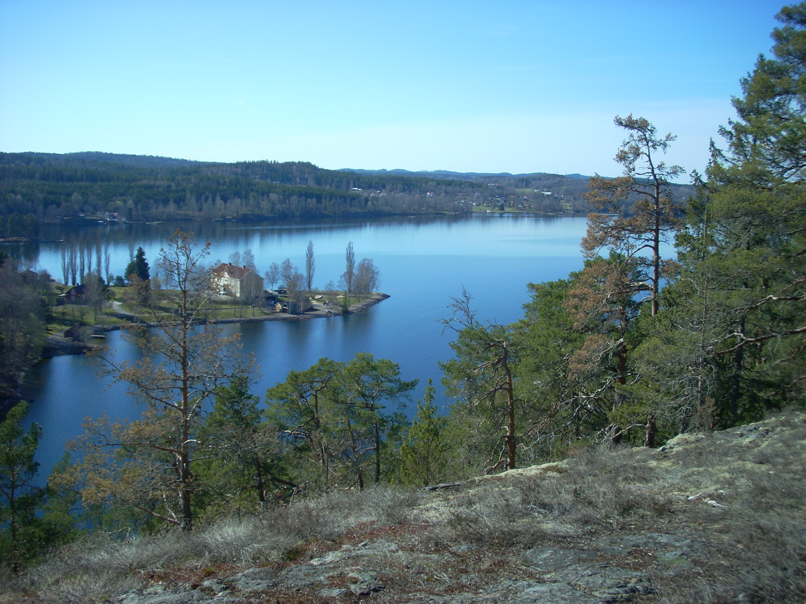 Partial view of Norra Vi from a hill to its northeast.